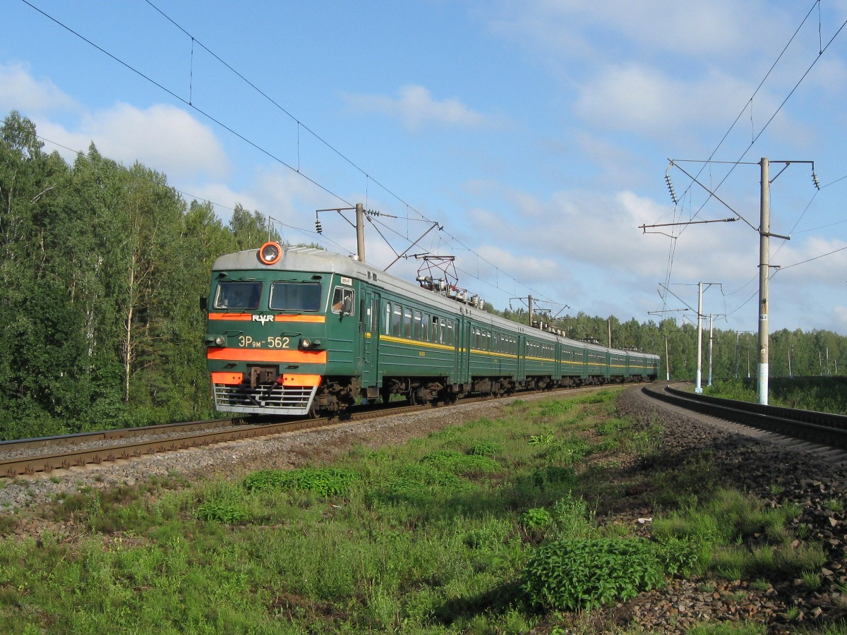 ER9M-562 EMU-train between Klyukovniki and Navlya stations (Bryansk region, Russia)